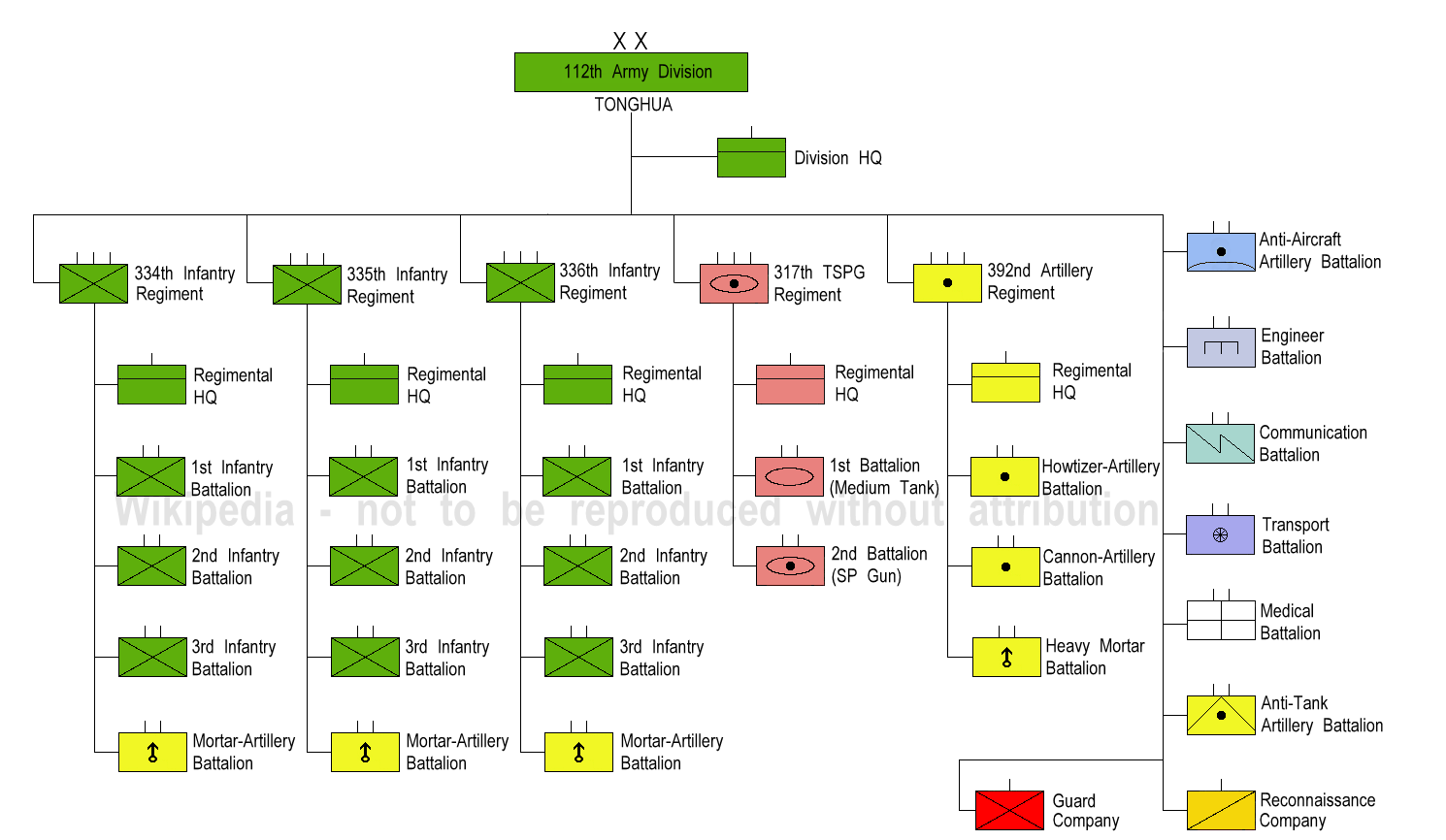 112th Army Division(People's Republic of China), Order of Battle from 1955 to 1962.